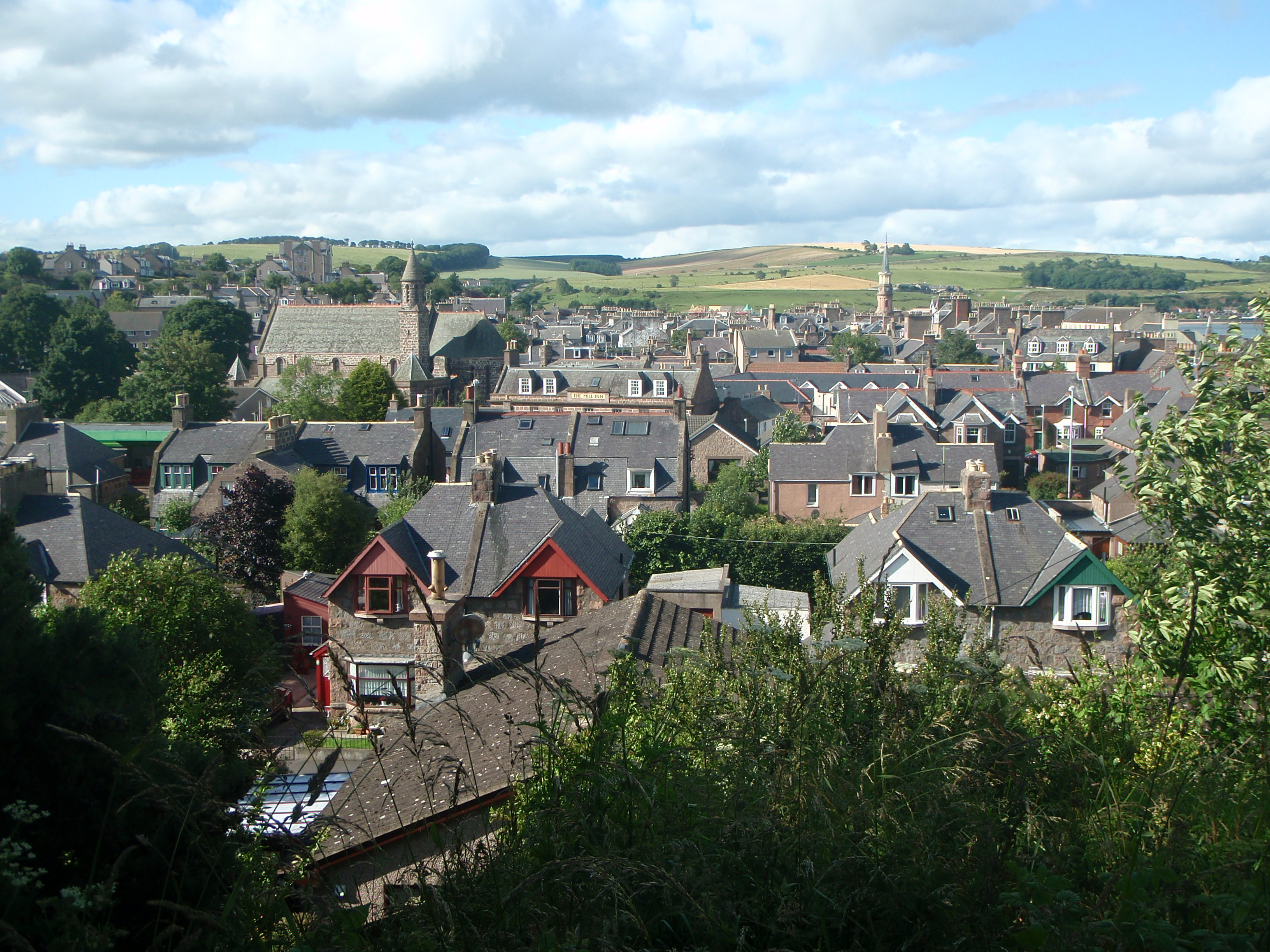 Photo of the view above Stonehaven, Aberdeenshire/Scotland